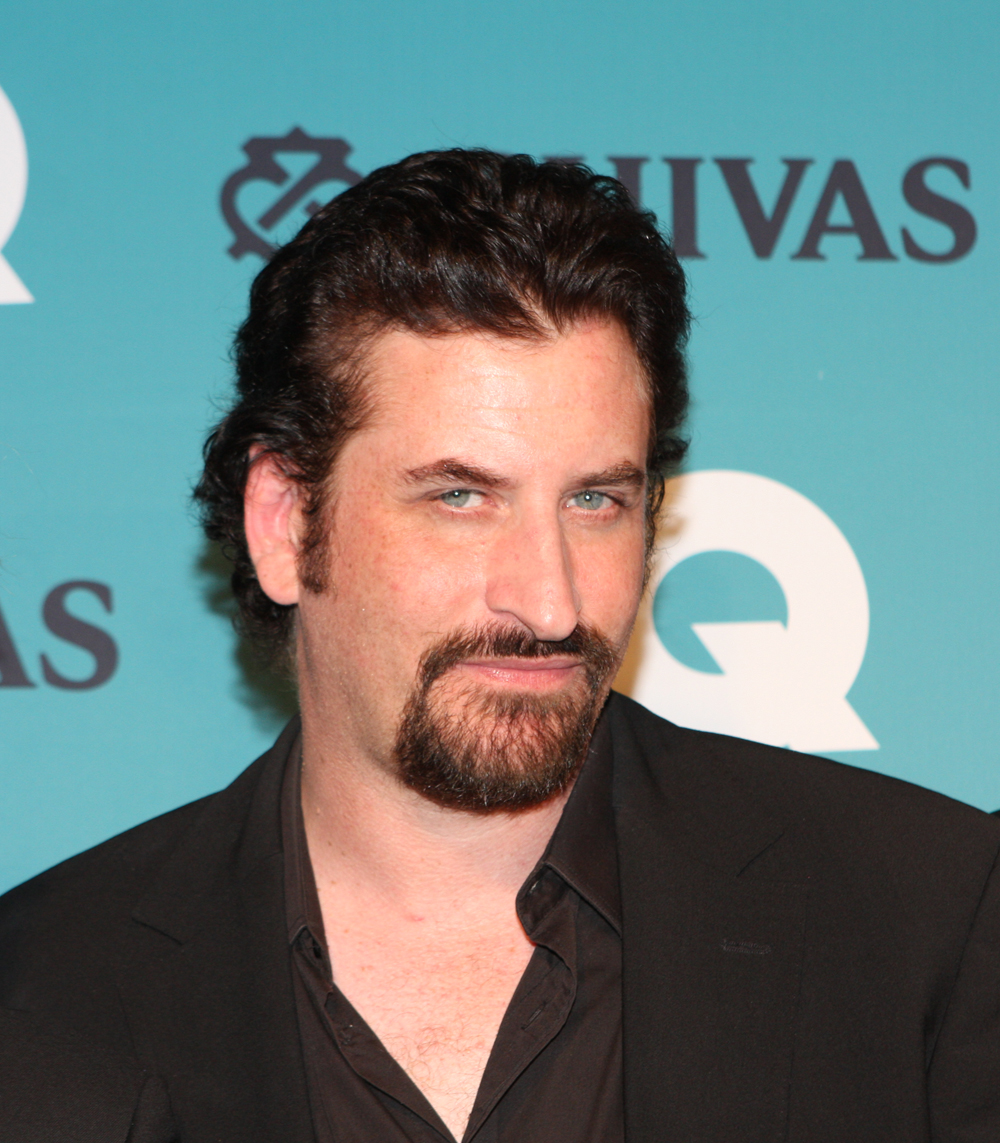 GQ Men of the year awards 2012